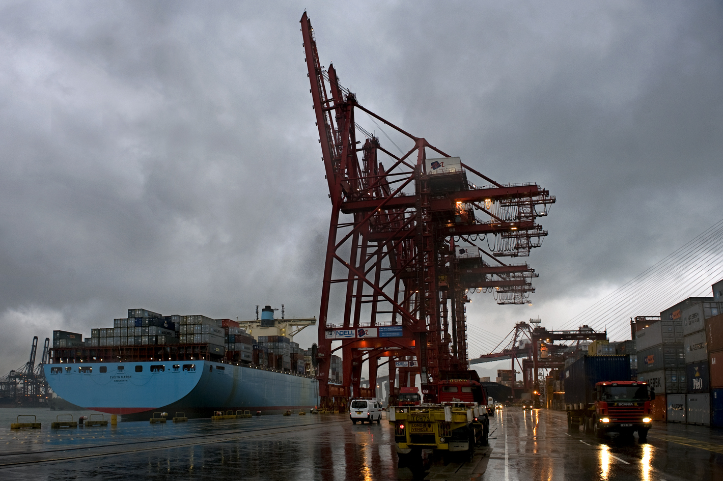 Leaving the Port of Hong Kong